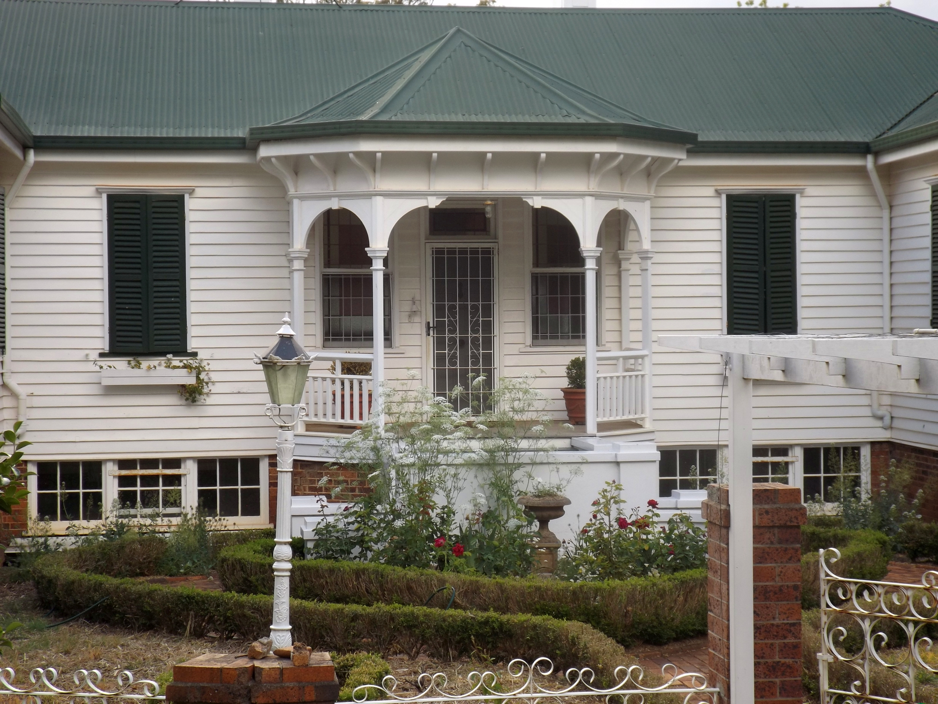 Photo of closeup of front entrance to the heritage-listed Glen Alpine residence at Redwood, Toowoomba, Queensland, Australia.